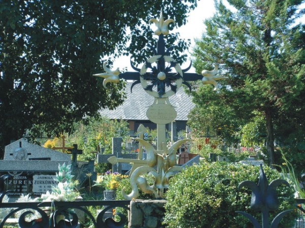 Władysław Orkan